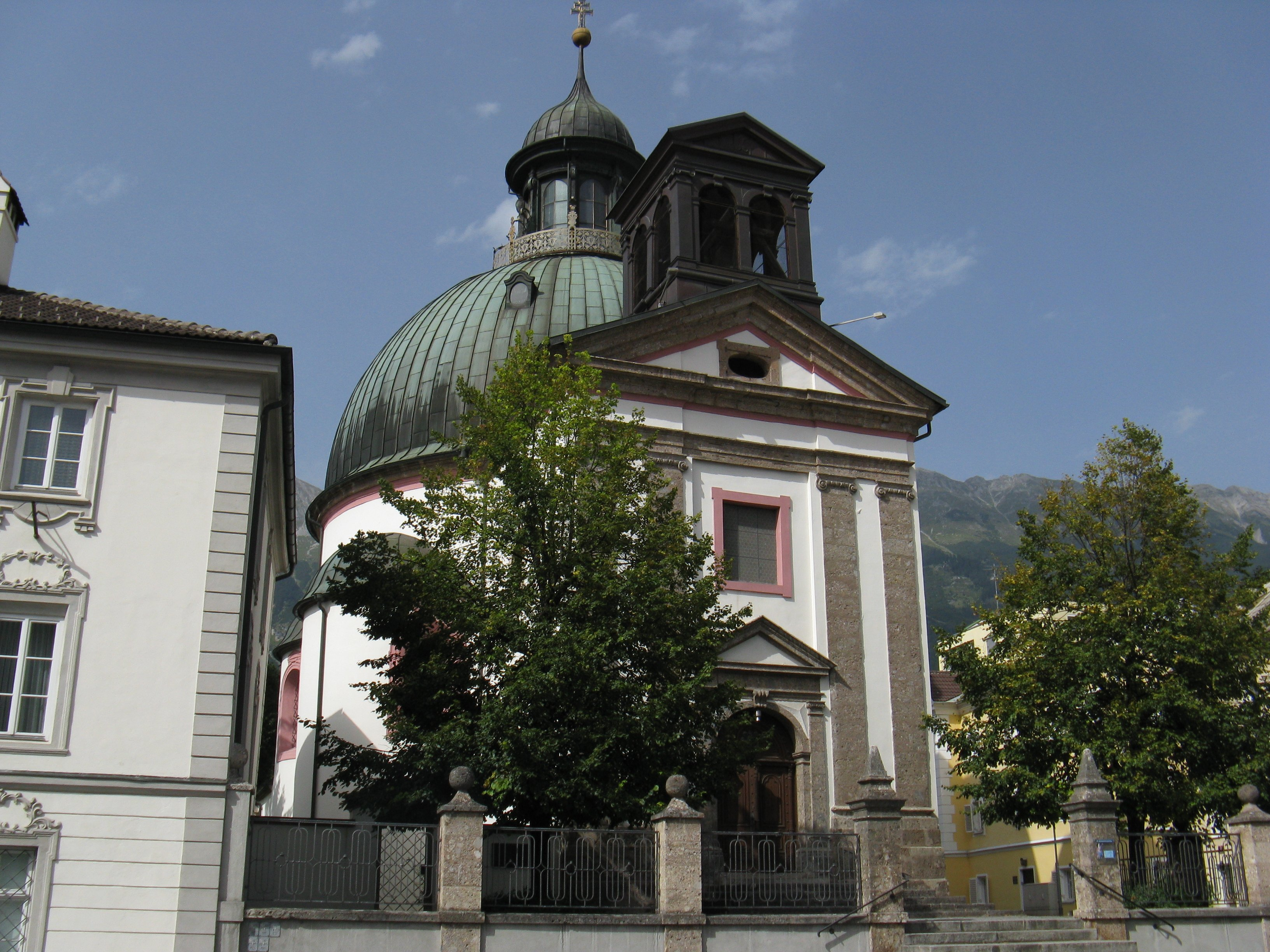 Mariahilf church in Innsbruck